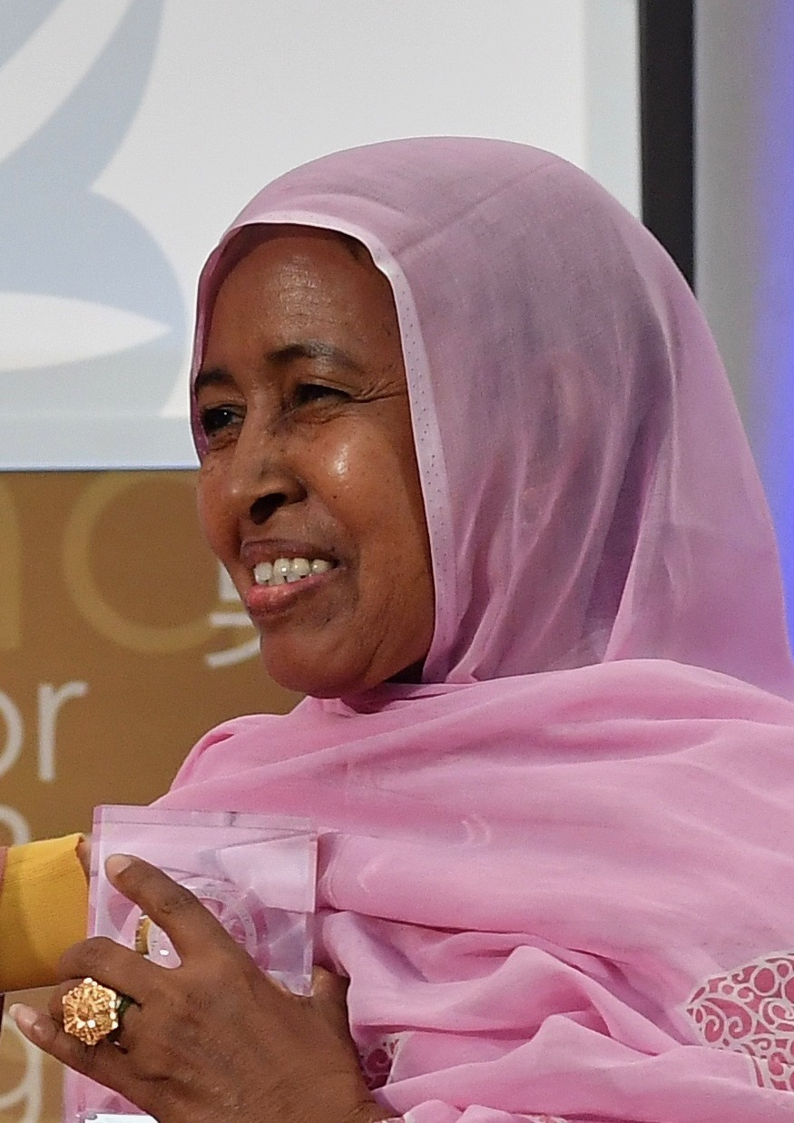 L’Malouma Said of Mauritania at the 2018 International Women of Courage Award derived from